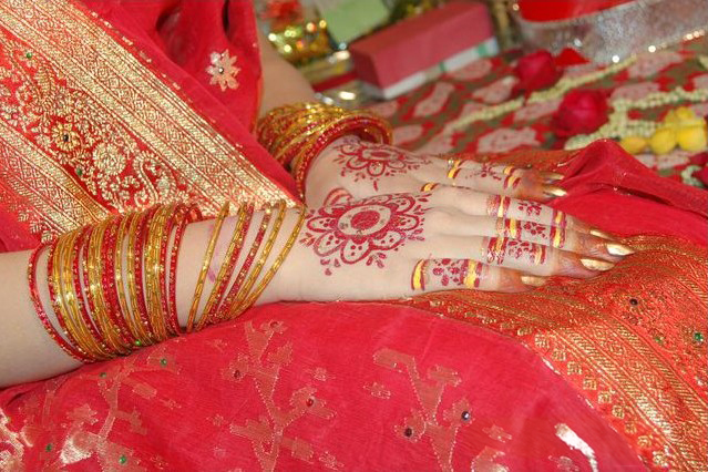 Bangladeshi wedding at Dhaka